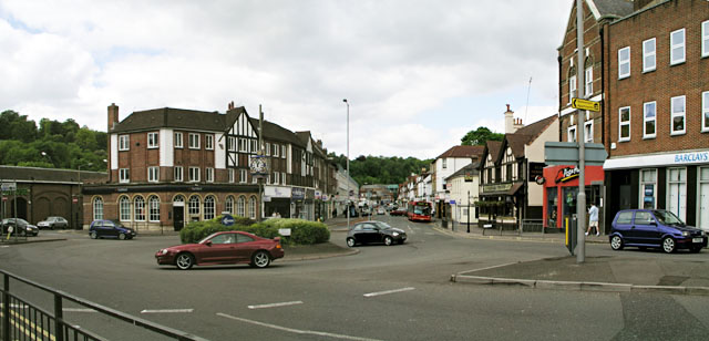 Croydon Road, Caterham. Seen from the end of Church Walk this is the high street for the lower half of Caterham.